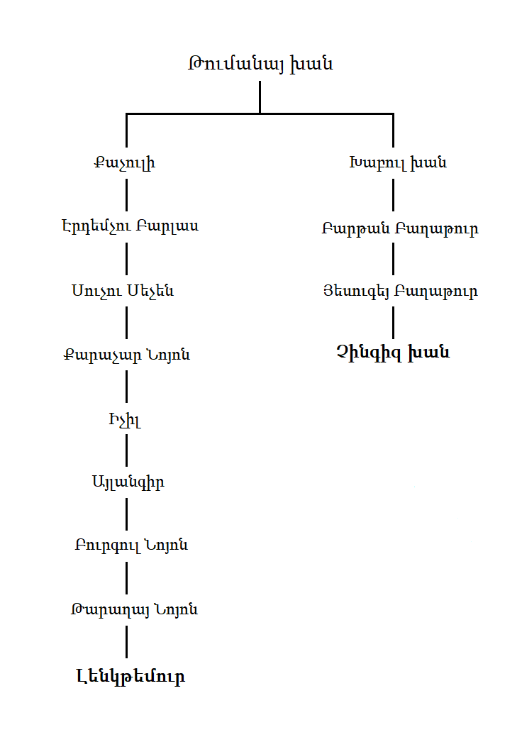 Genealogical ties between Timur and Genghis Khan